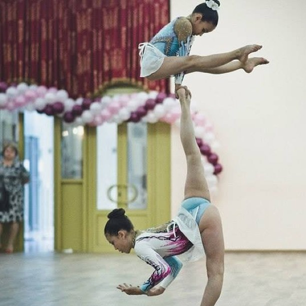 Straddle on Leg